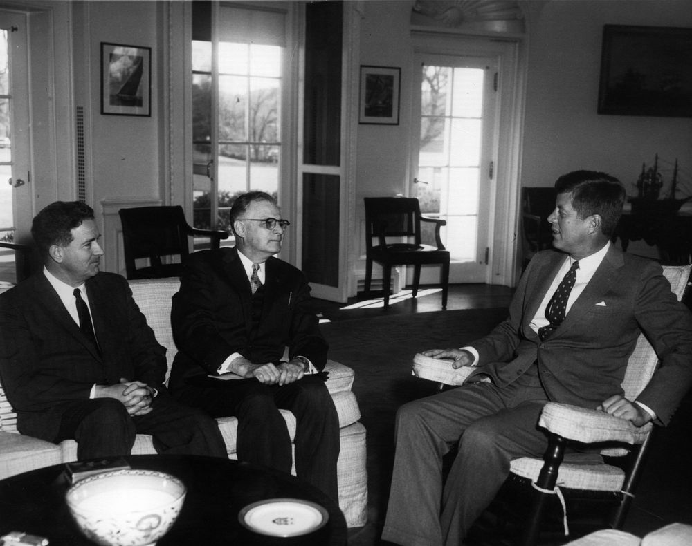 President John F. Kennedy (in rocking chair) meets with education officials in the Oval Office, White House, Washington, D.C. (L-R) Commissioner of Education Sterling McMurrin; Executive Secretary of the National Education Association William G. Carr; President Kennedy.